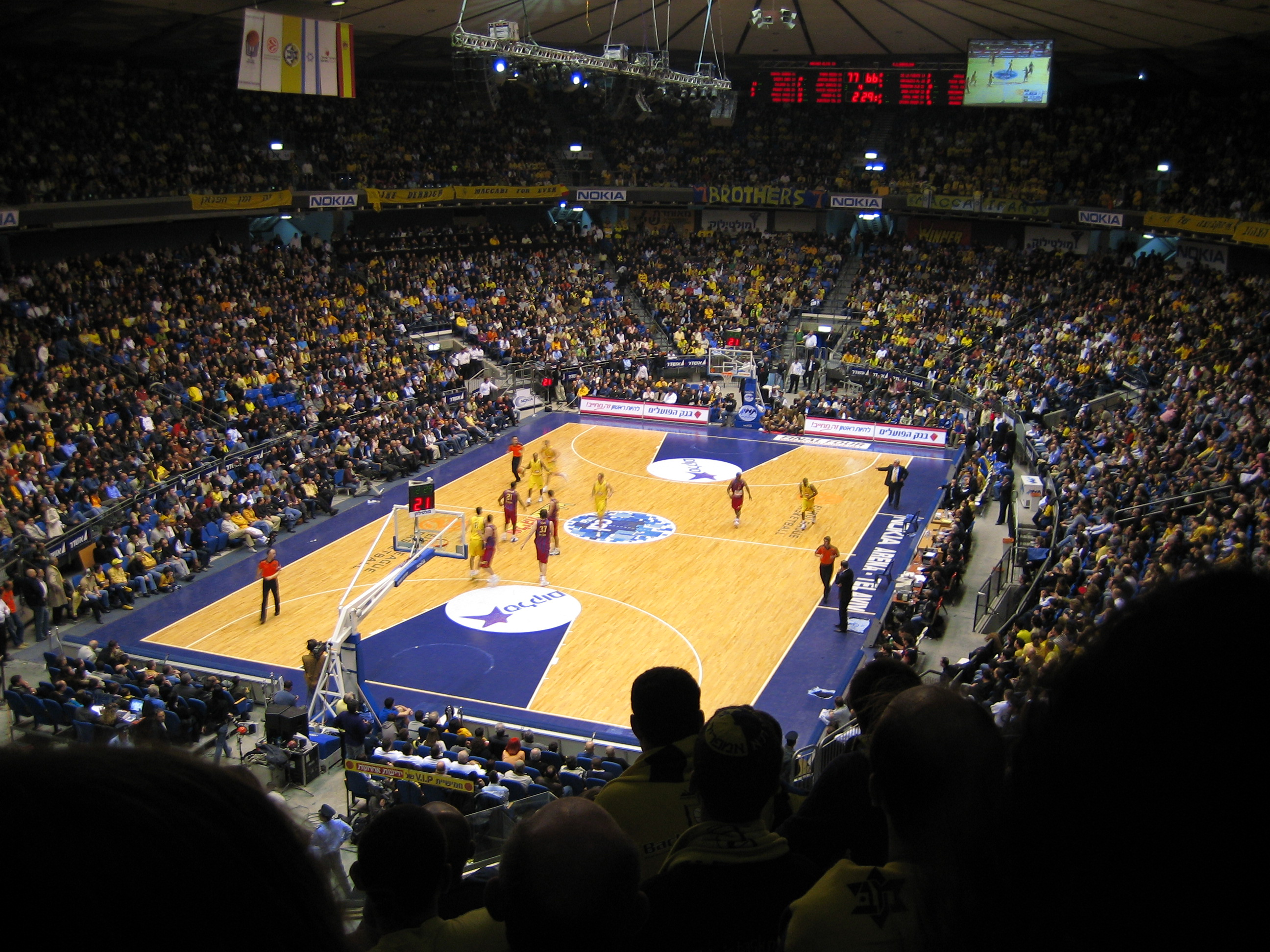 Nokia Arena from Gate 11, during a Maccabi Tel Aviv match vs. Winterthur FC Barcelona